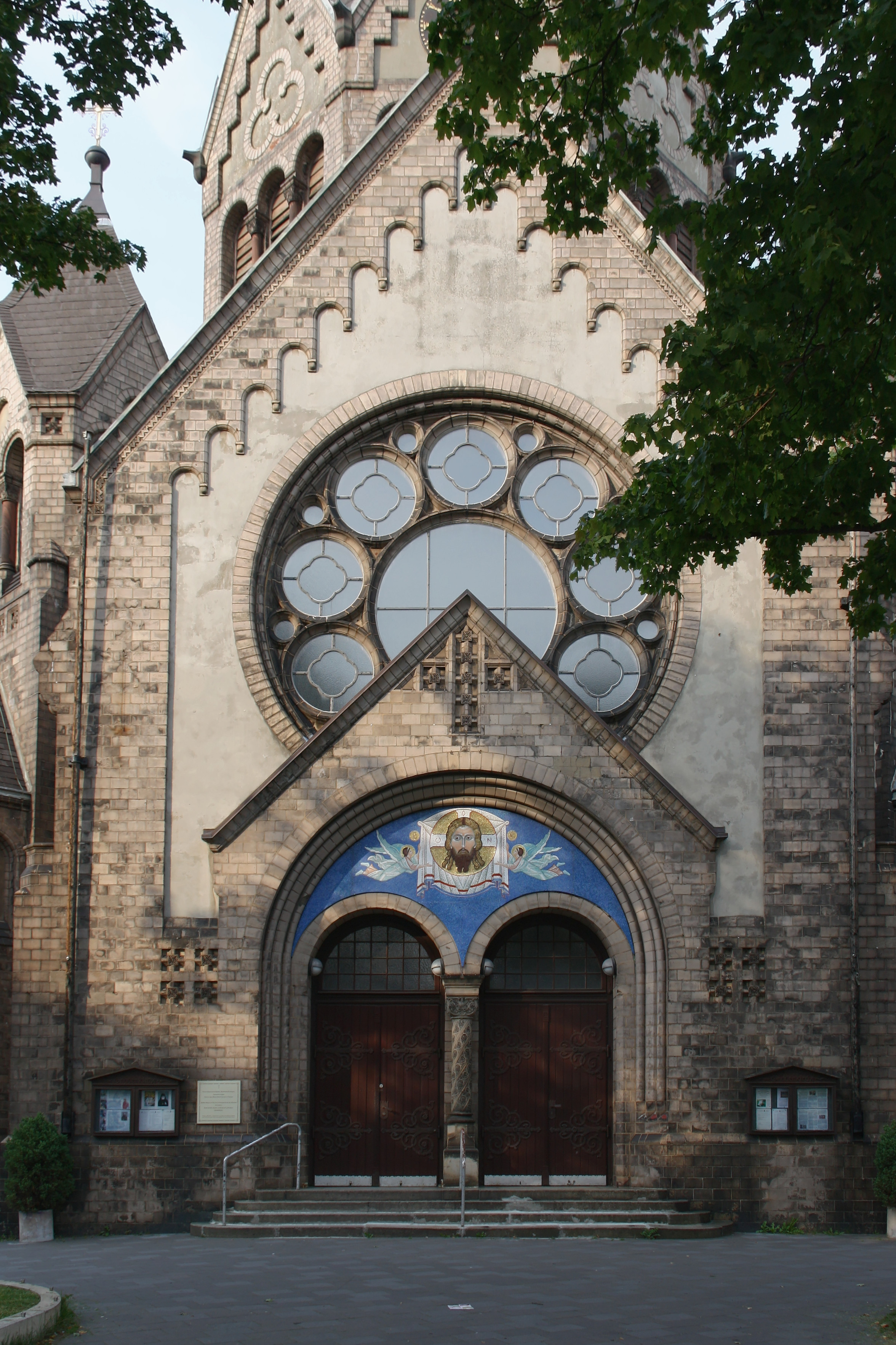 Orthodox church of St. John of Kronstadt in Hamburg-St.Pauli, main entrance